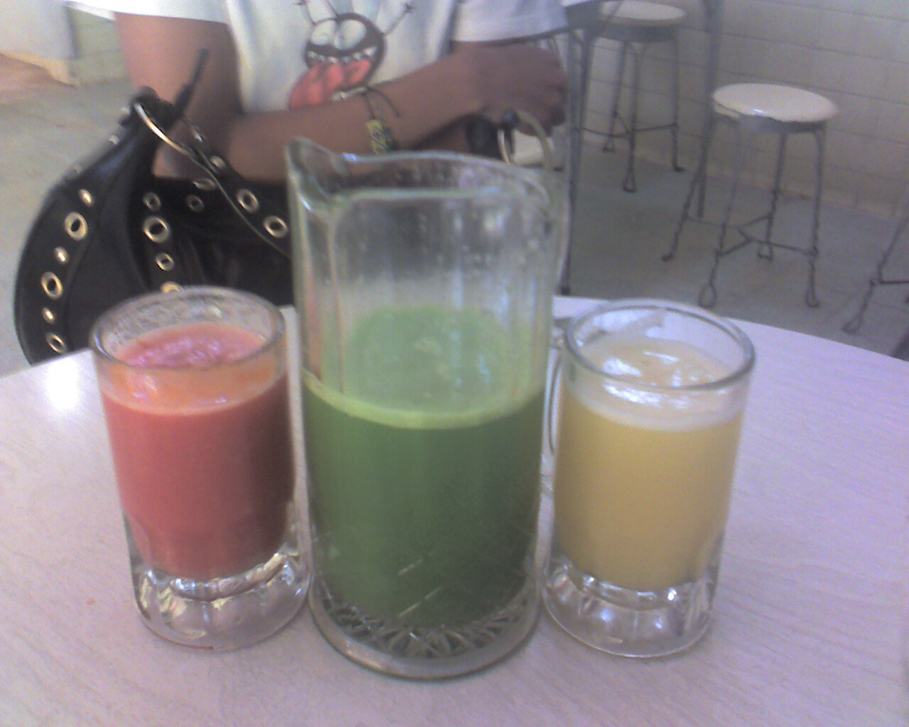 Pulque, or octli, is an alcoholic beverage made from the fermented sap of the maguey plant, and is a traditional native beverage of Mexico. Three flavors are pictured.